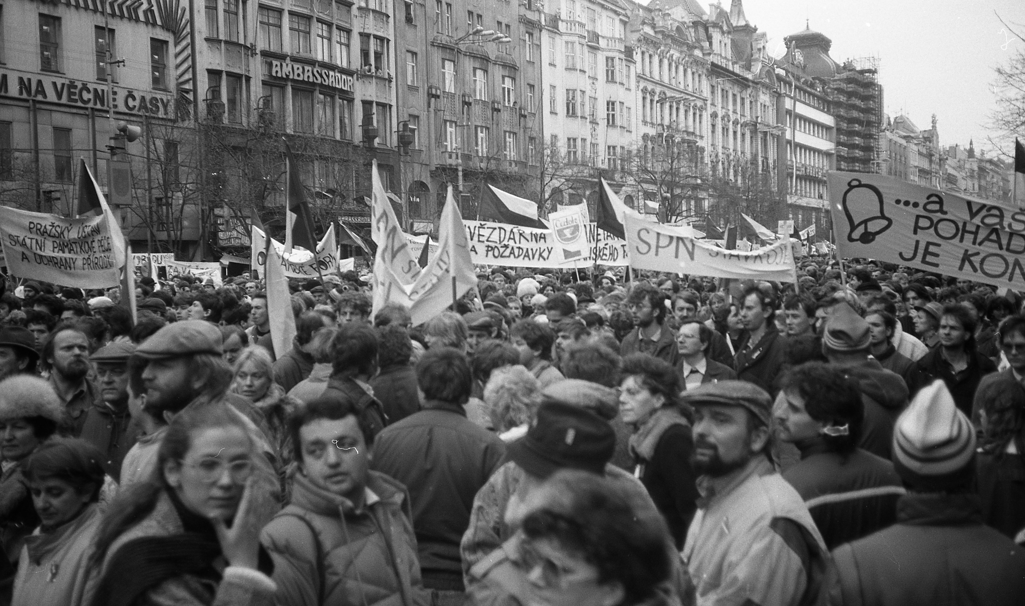 Street photo from the "Velvet revolution" in Prague 1989